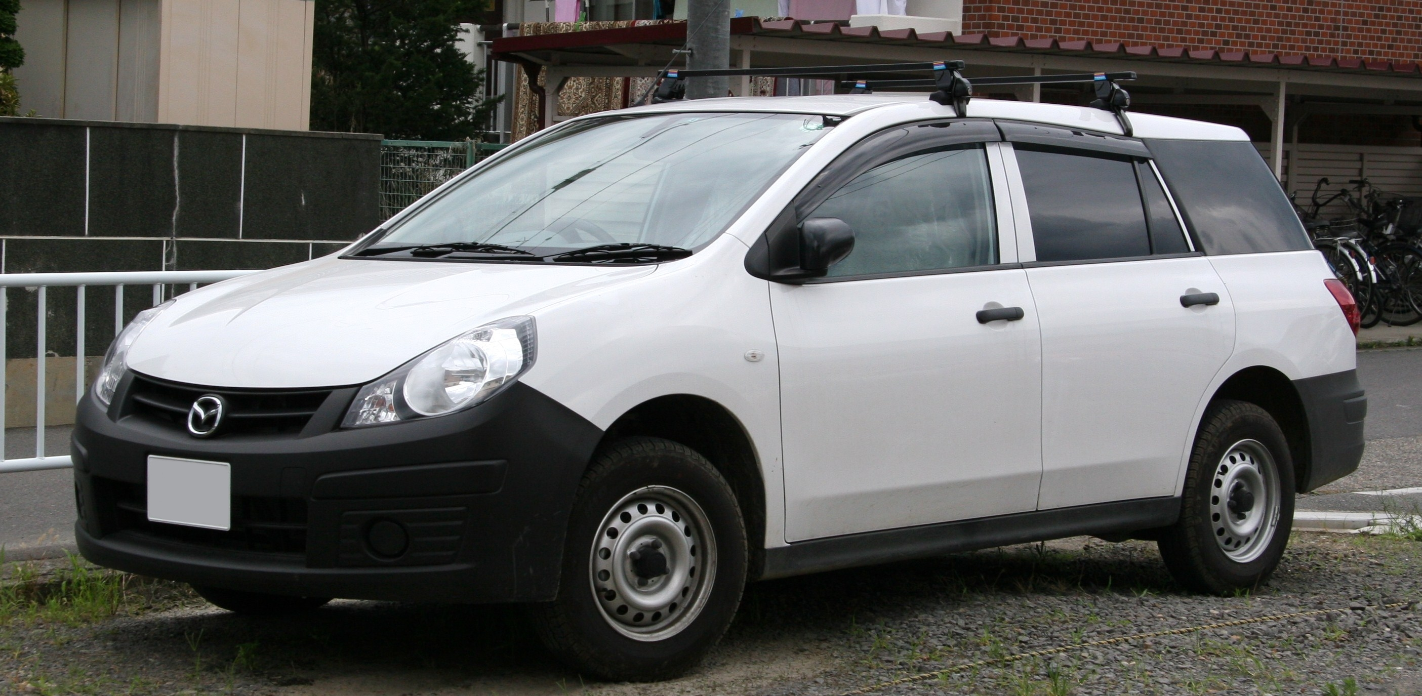 Mazda Familia Van